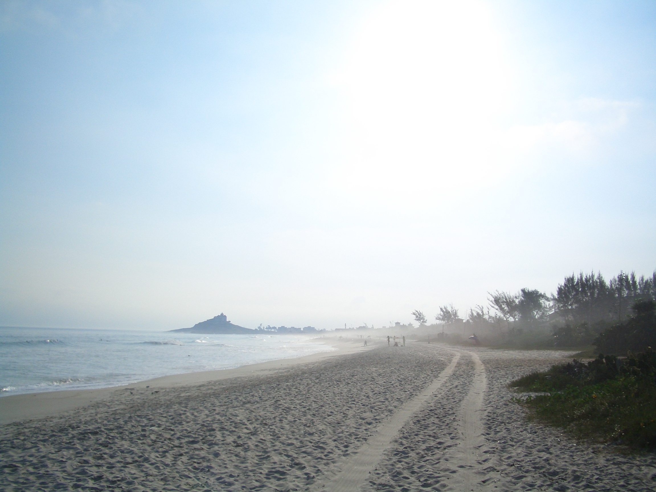 Itaúna Beach, Saquarema, RJ, Brazil. Taken outside the Itaúna Inn.